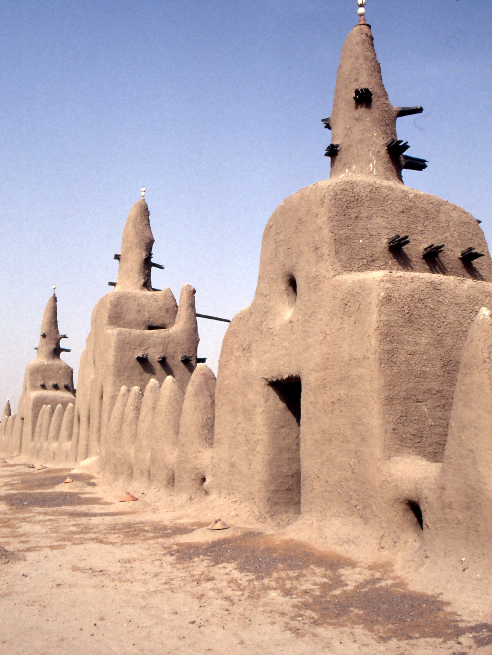 On the roof of the Great Mosque of Djenné